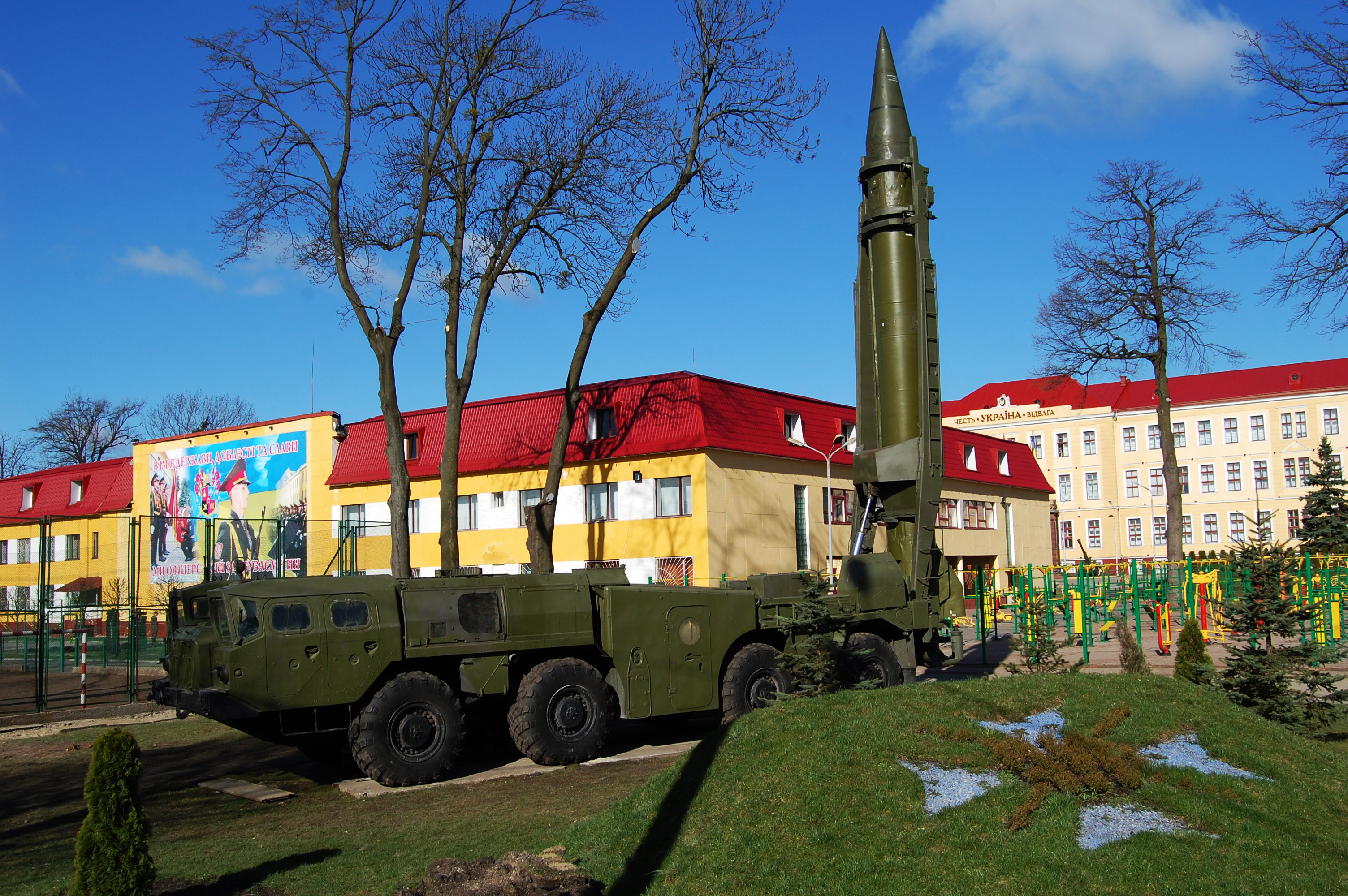 9K72, Lviv, Ukraine.